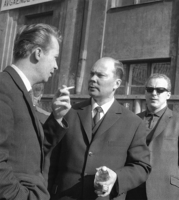 Photograph of Finnish musicians waiting for the train to Leningrad on 17 June 1963. From left to right: Aulis Sallinen, Paavo Berglund, Pertti Kiri.